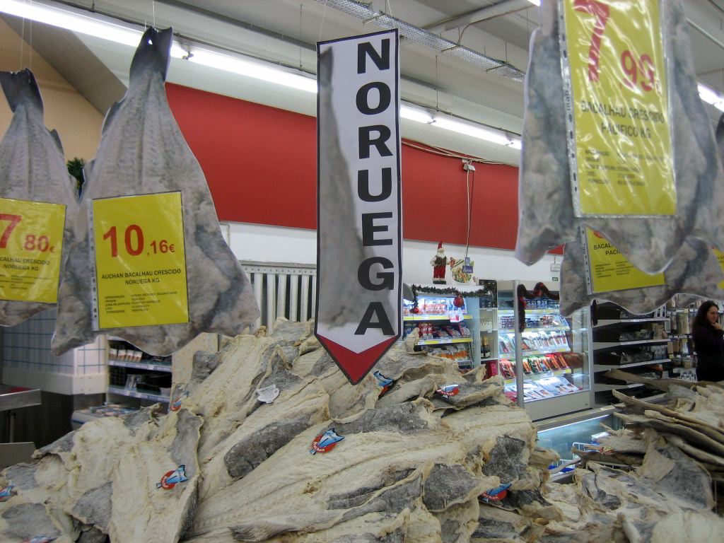 Norwegian dried cod at the Jumbo supermarket in Cascais